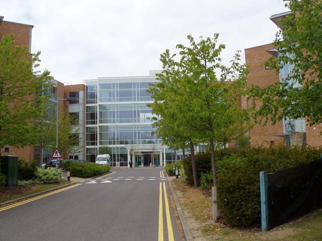 Norfolk & Norwich University Hospital NHS Trust East Atrium entrance on the Southern side